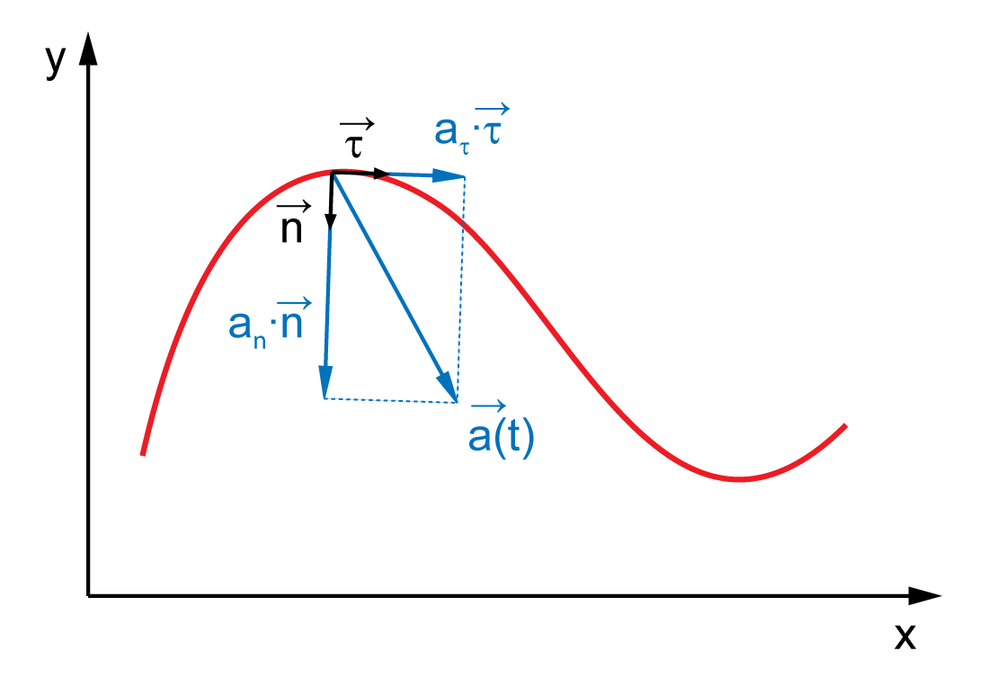 Acceleration